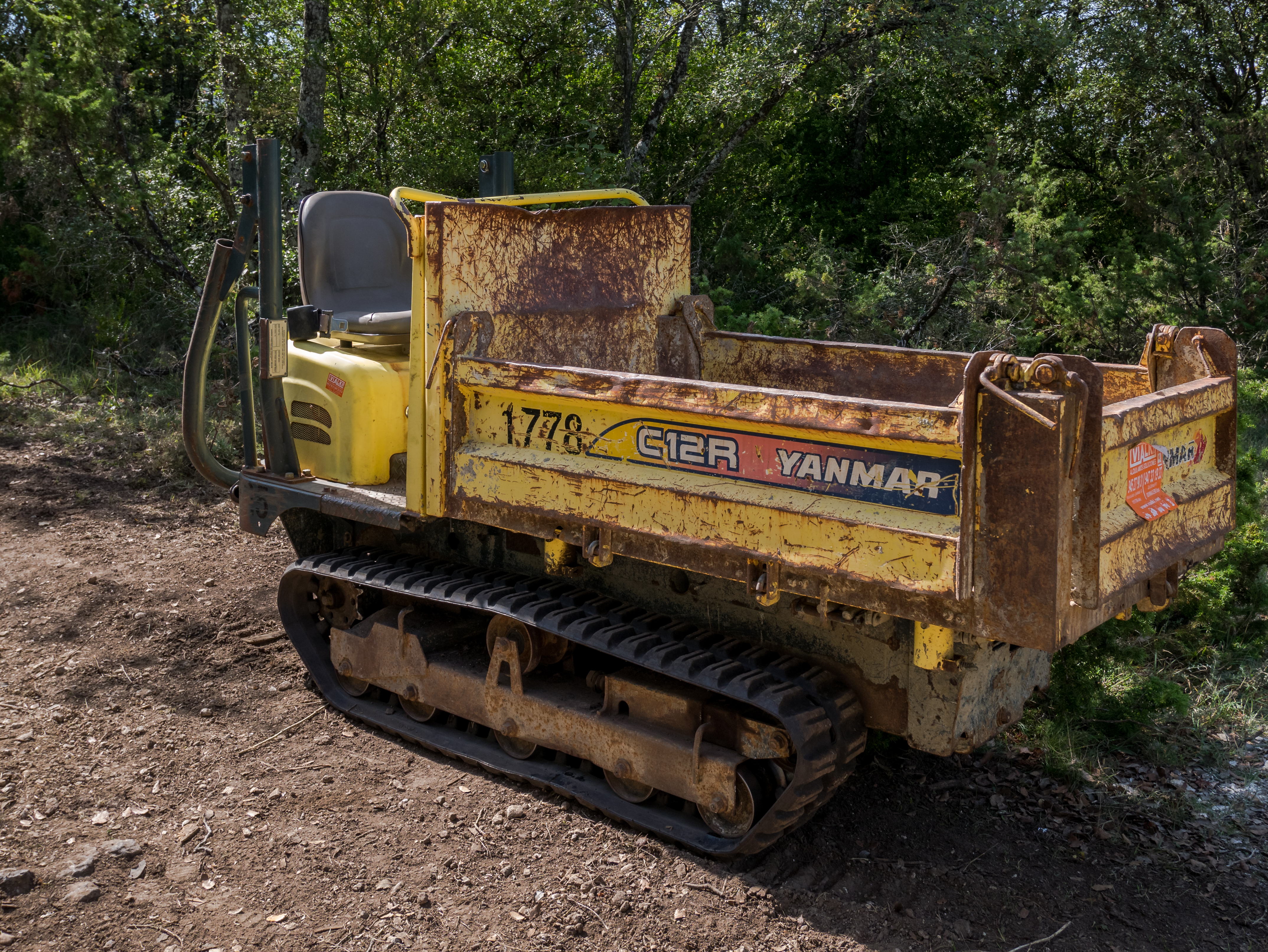 Tracked dumper Yanmar C12R, near Korres. Álava, Basque Country, Spain